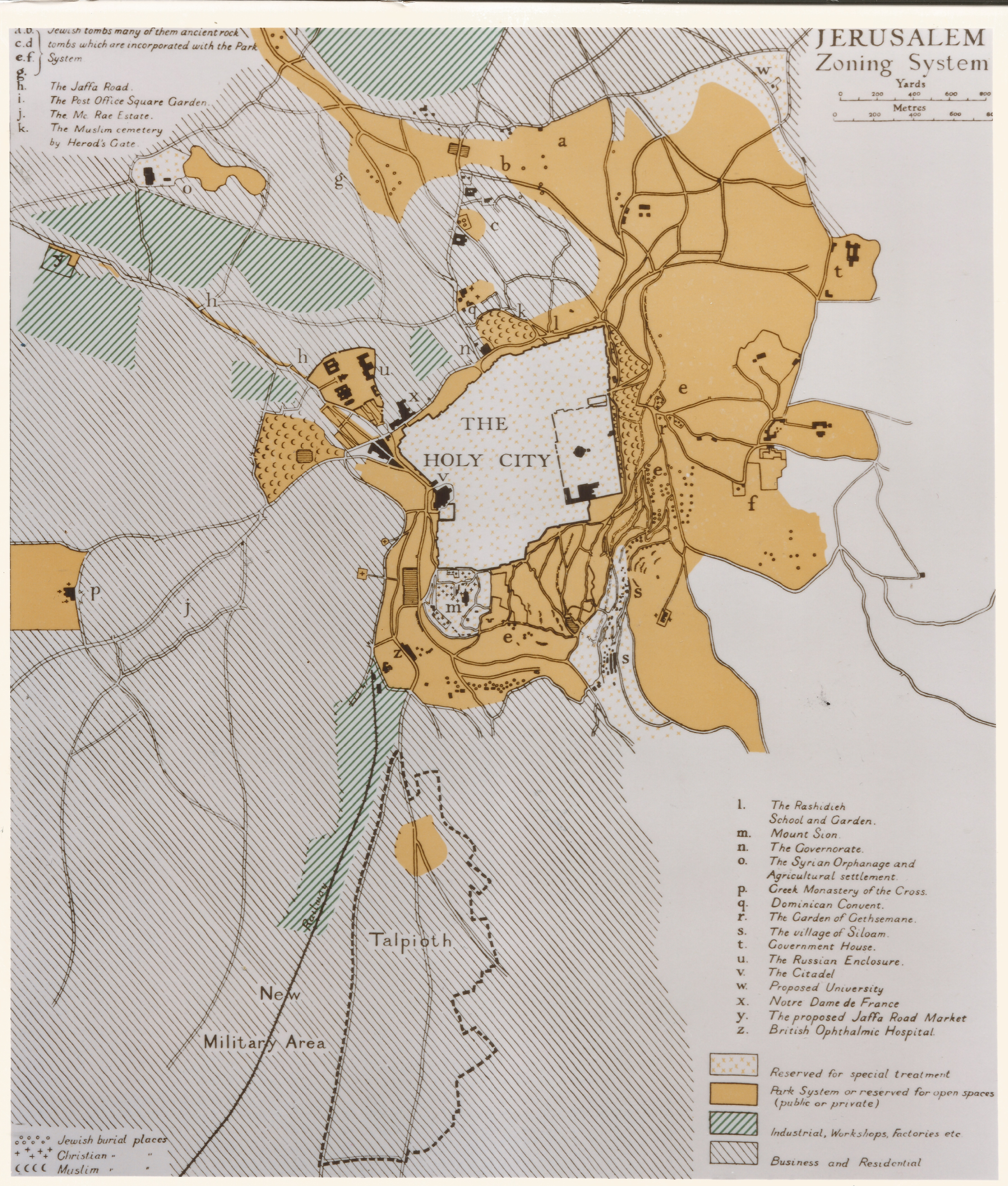 Zoning plan for Jerusalem prepared initially by Charles Robert Ashbee based on initial work by Patrick Geddes in 1919, for the "Jerusalem Actual and Possible: A preliminary report on town planning and City improvements". Edited by Charles Robert Ashbee, for the Pro Jerusalem Council 1921